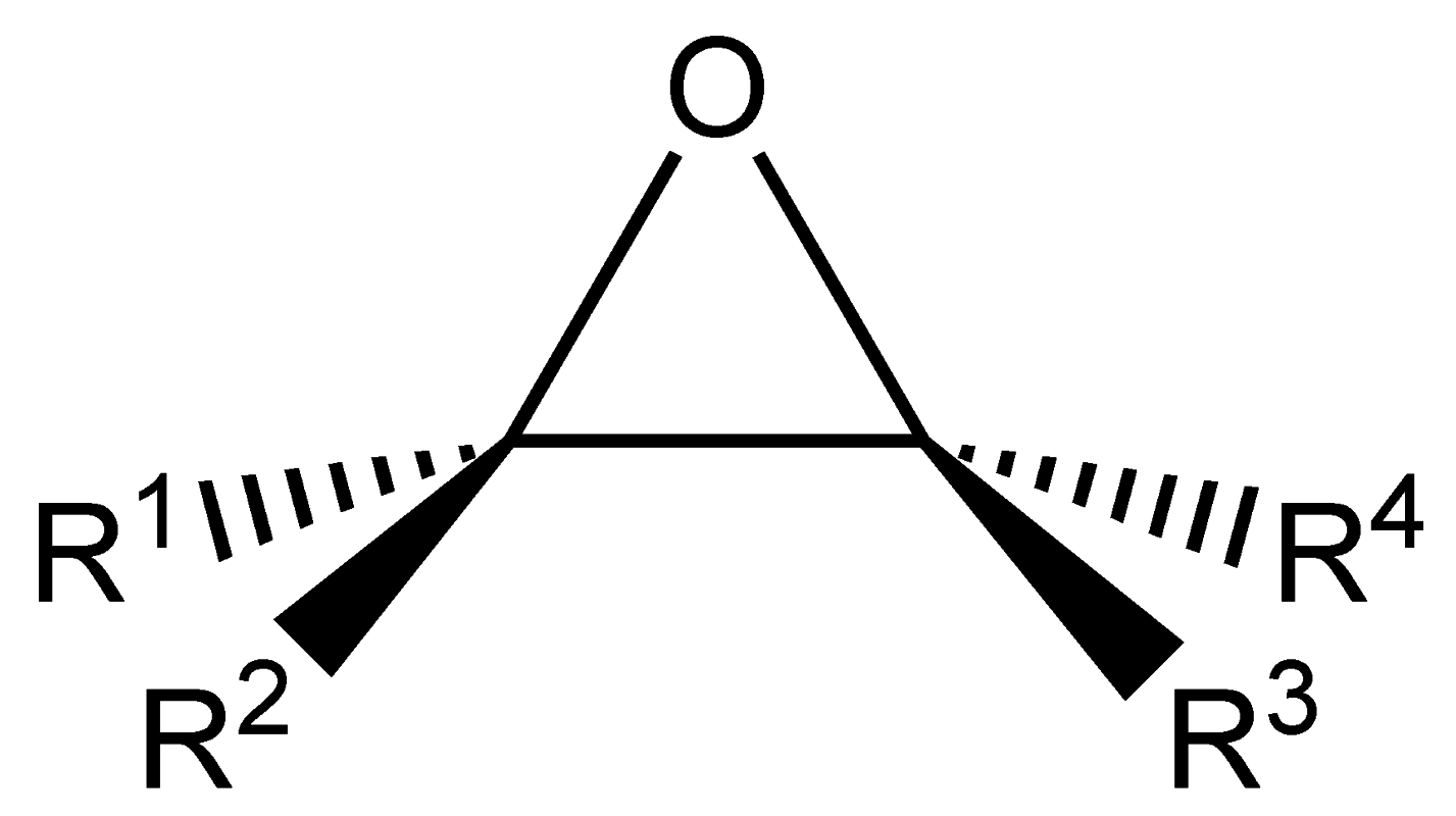 Generic structure of an epoxide